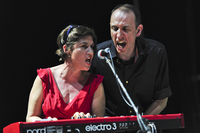 The Triffids @ Red Hill Auditorium (4/12/11)